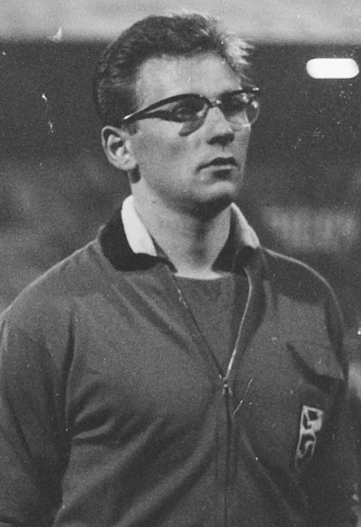 Jef Jurion as a player of the Belgium national football team, Olympic Games, 1964, Tokyo.